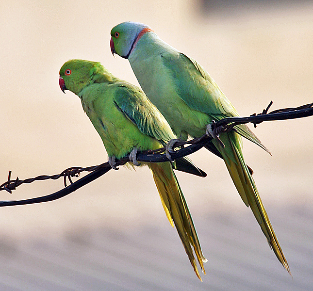 Rose-ringed Parakeet Psittacula krameri at/ near Hodal in Faridabad District of Haryana, India.